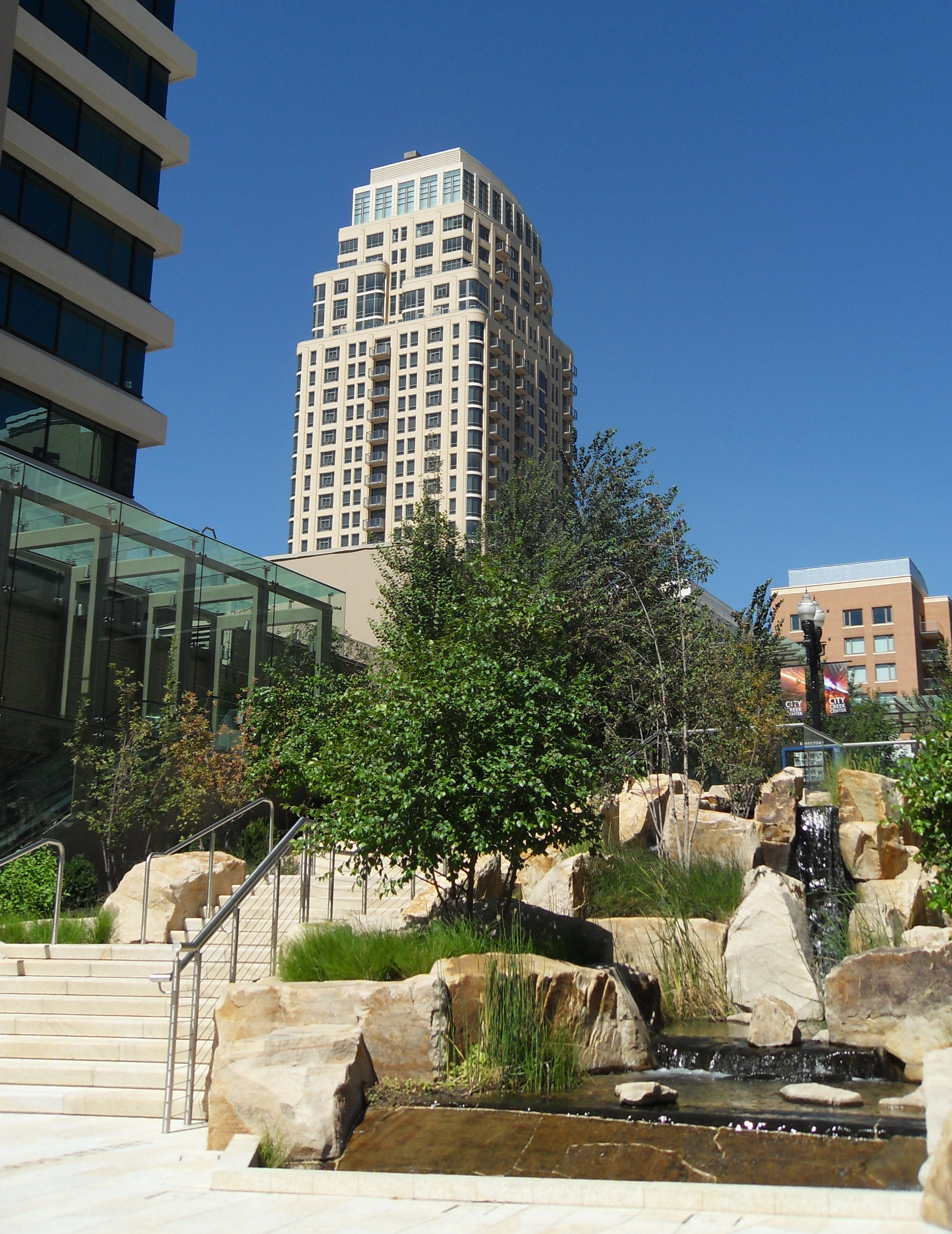 The south side entrance to City Creek Center at Richards Street. The 99 West Apartments (formerly The Promontory) are seen in the distance.